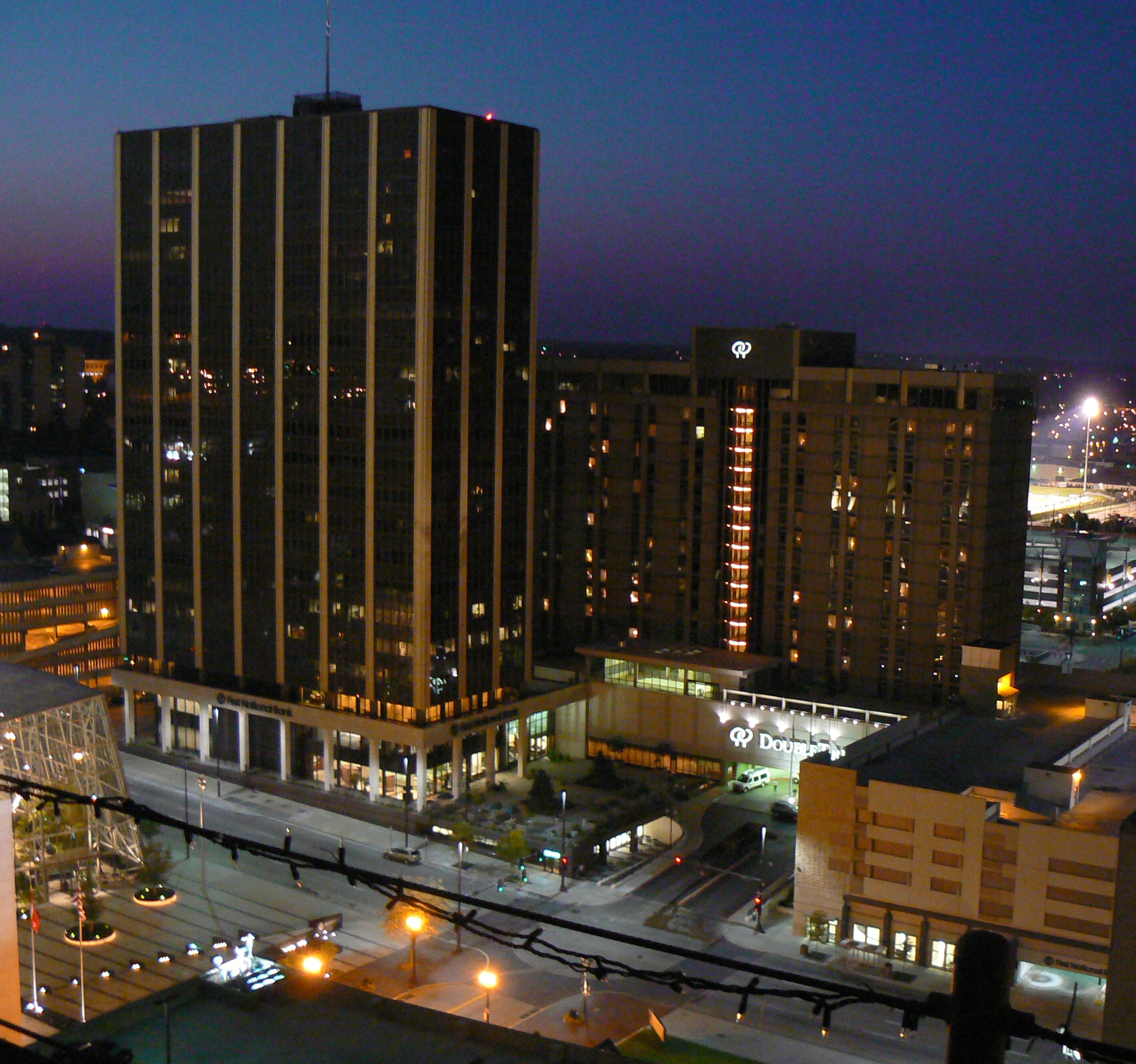 First National Center Building and Double Tree Hotel in Omaha, Nebraska as seen at night